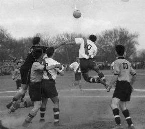 Awesome headshot by Ruben Mendoza, team KUTIS.